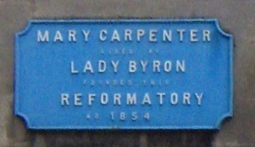 Entrance to Red Lodge, Bristol. Blue plaque commemorating Mary Carpenter